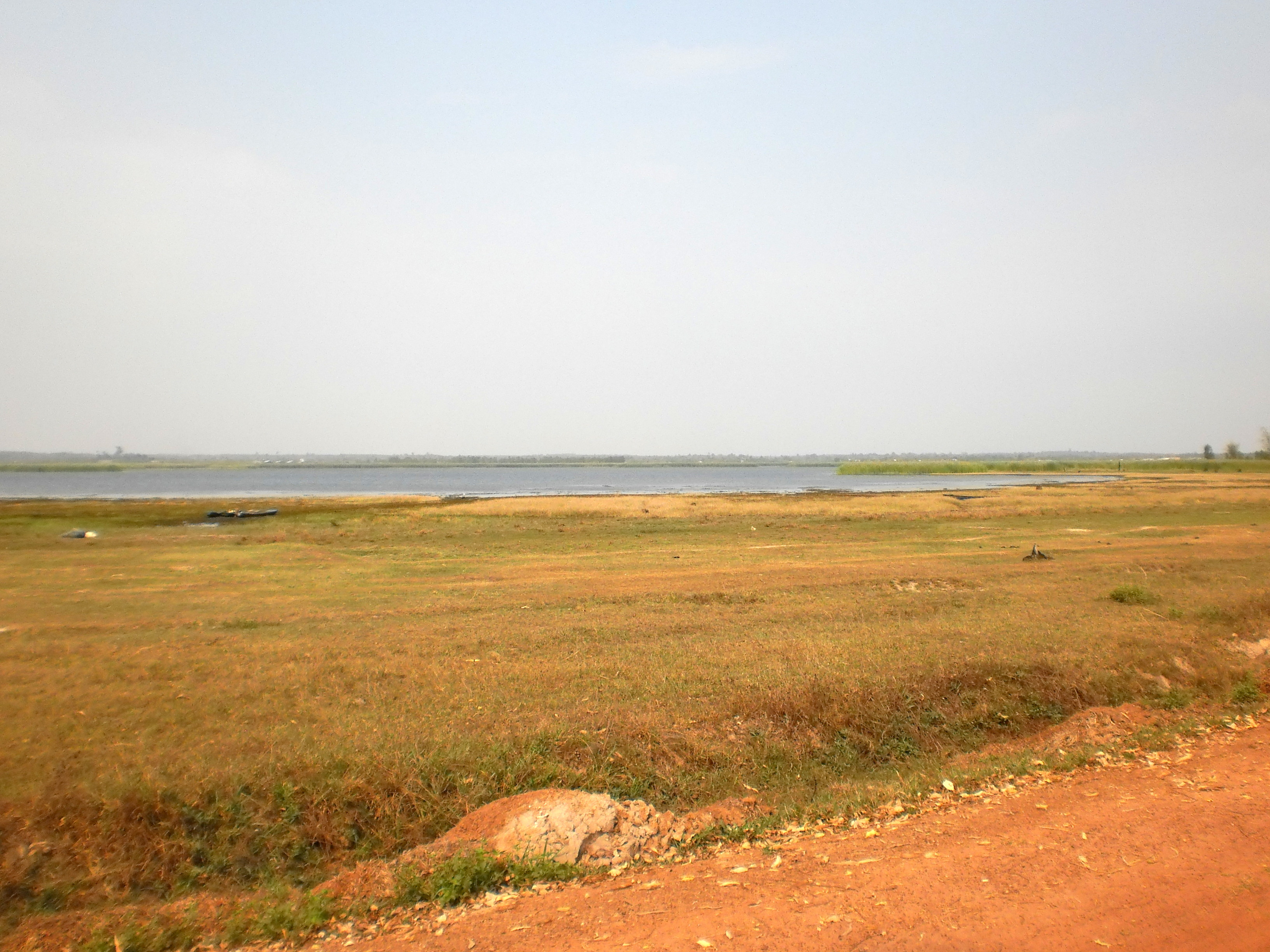 view of nong pla tao from opposie Ban Dung, Udon Thani Province, northeastern Thailand